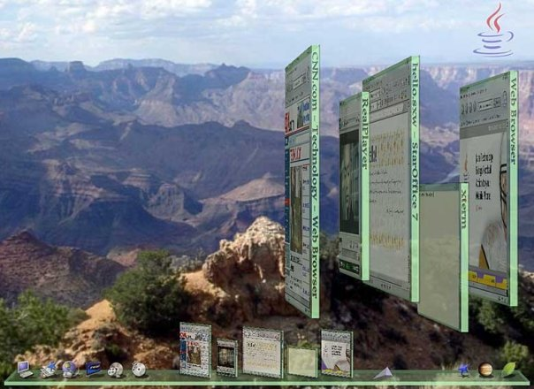 Showing one of the LG3D's feature of slanting all the window to assist the user to pick up a desired window